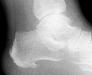 Lateral X-ray of a Calcaneum demonstrating a spur.